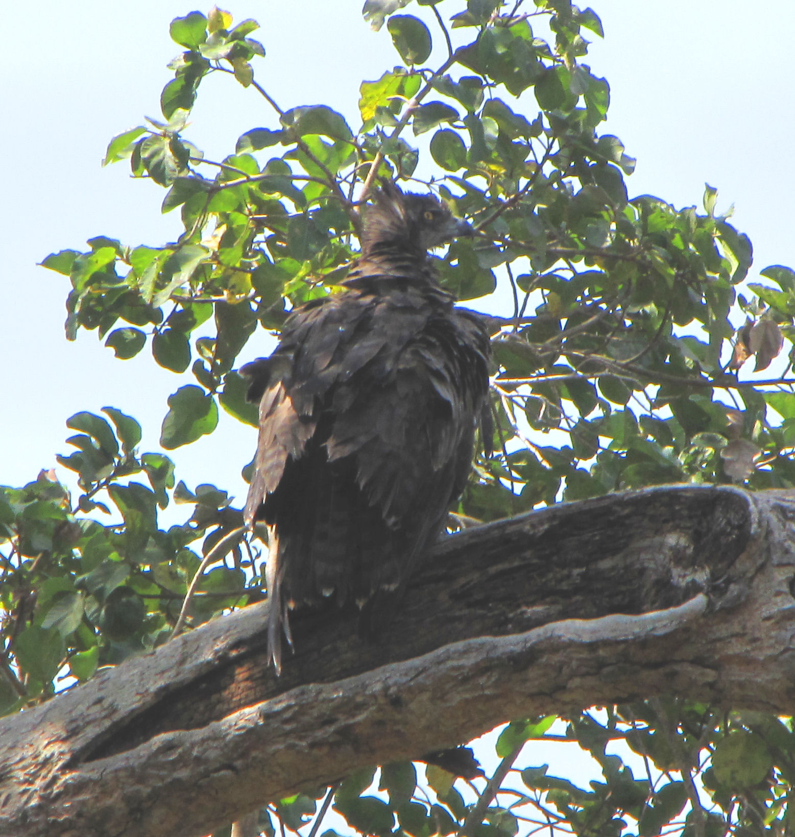 Brown Snake-eagle (Circaetus cinereus), Lake Manyara National Park, Tanzania